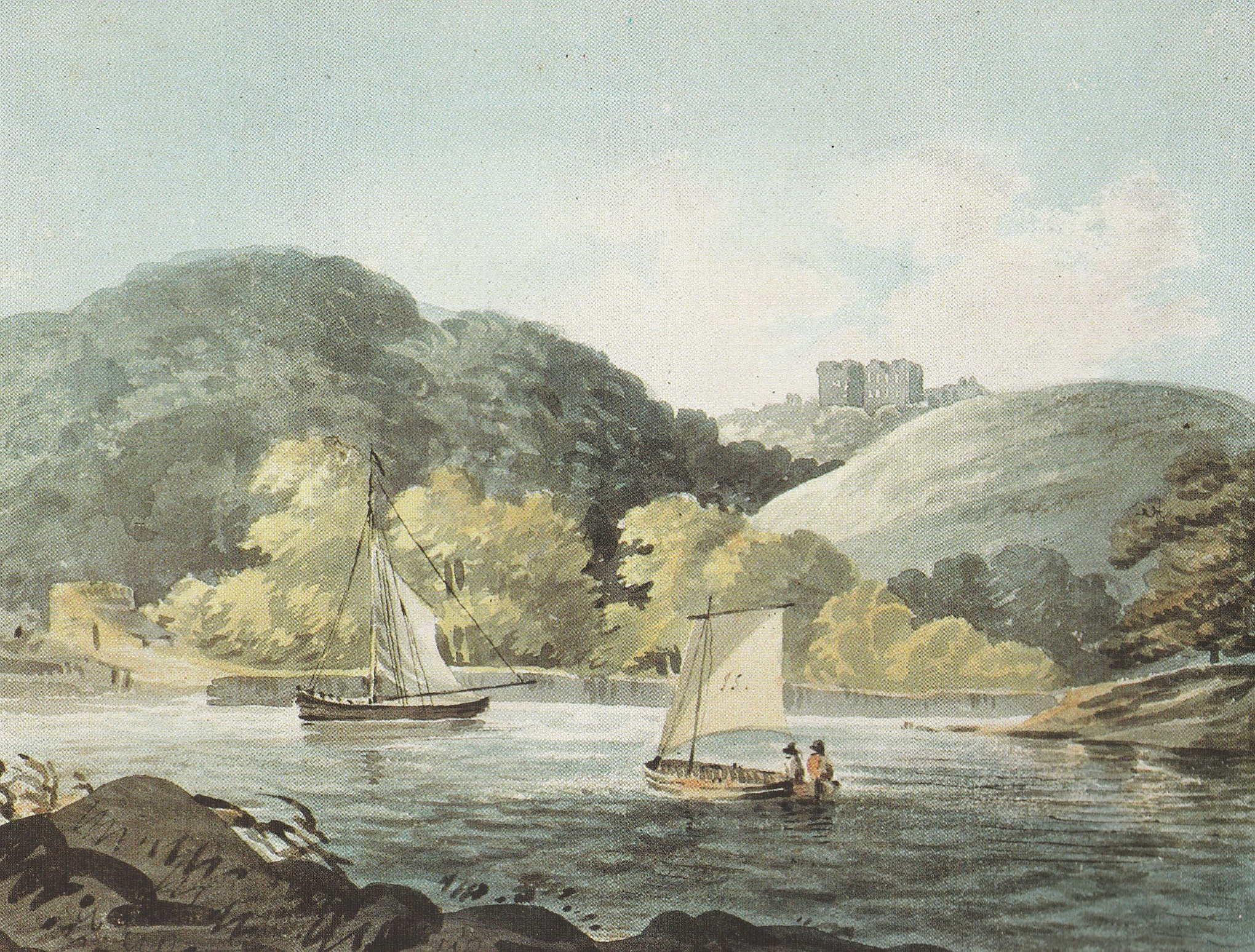 Watercolour titled "Wembury", showing the ruinous Wembury House, built by Sir John Hele (d.1608). Devon Record Office ref:DRO, 564M/F13/25